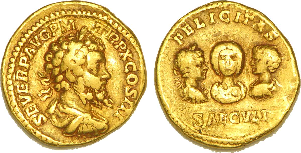 Aureus à l'effigie de Septime Sévère, Julia Domna, Caracalla et Géta FELICITAS SAECVL